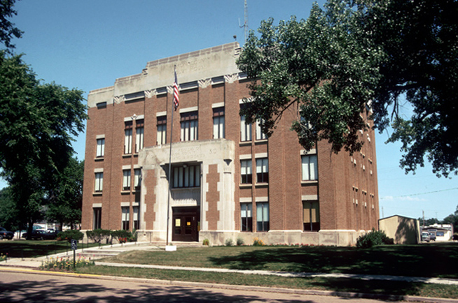 The Haakon County Courthouse in Philip, South Dakota {rotated a bit from the original)